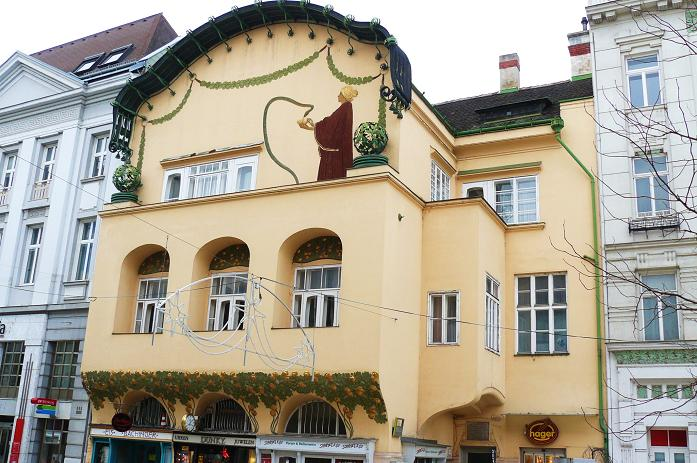 Stöhr Haus in Sankt Polten, Austria.